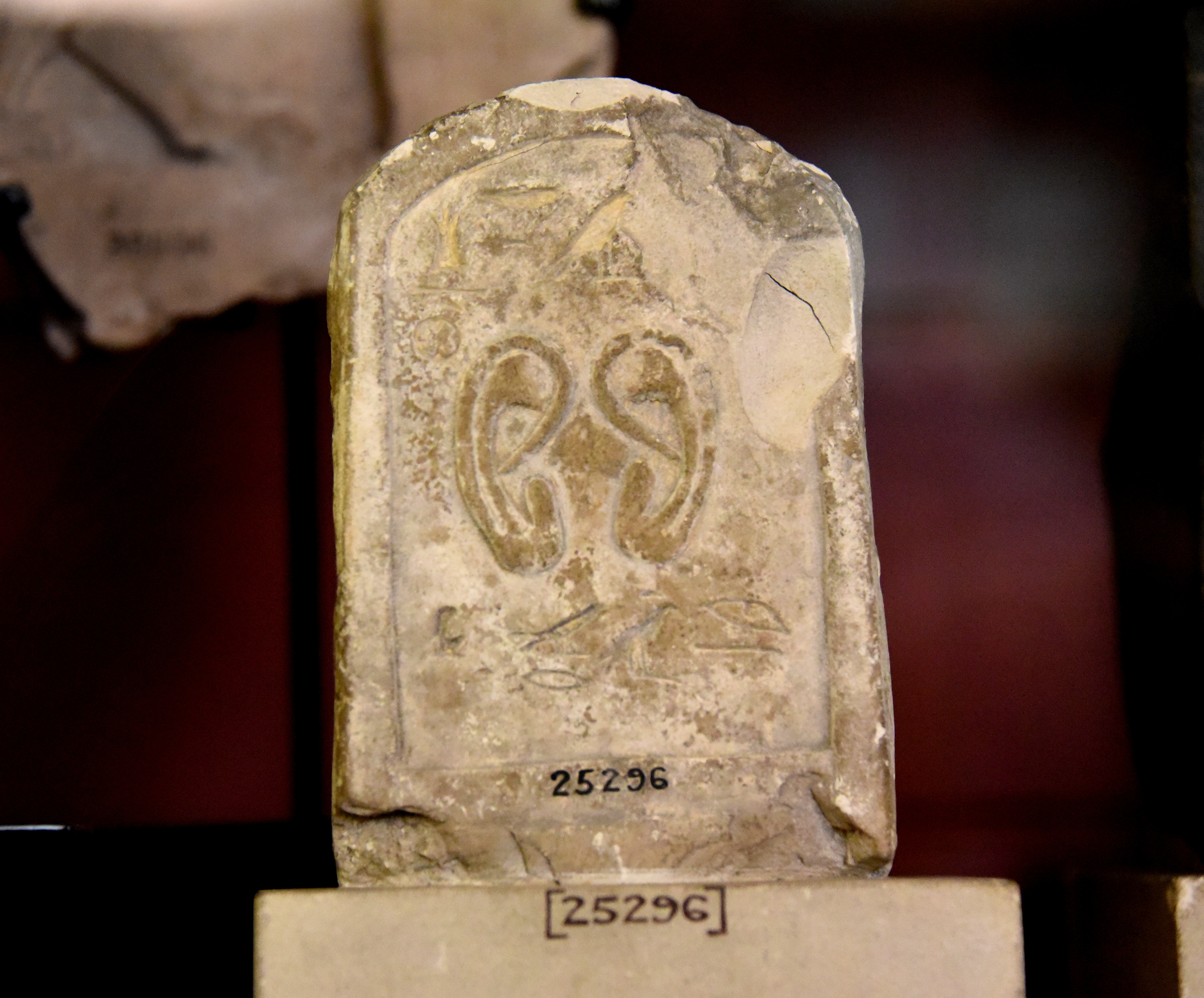 Miniature stela. It shows 2 reliefs of ears and incised hieroglyphs. The title or epithet of the "Lady of Dendera" as well as the names of Taweret (personal name) and Hathor (goddess) appear. Limestone. From Egypt, Ramesside period. The British Museum, London